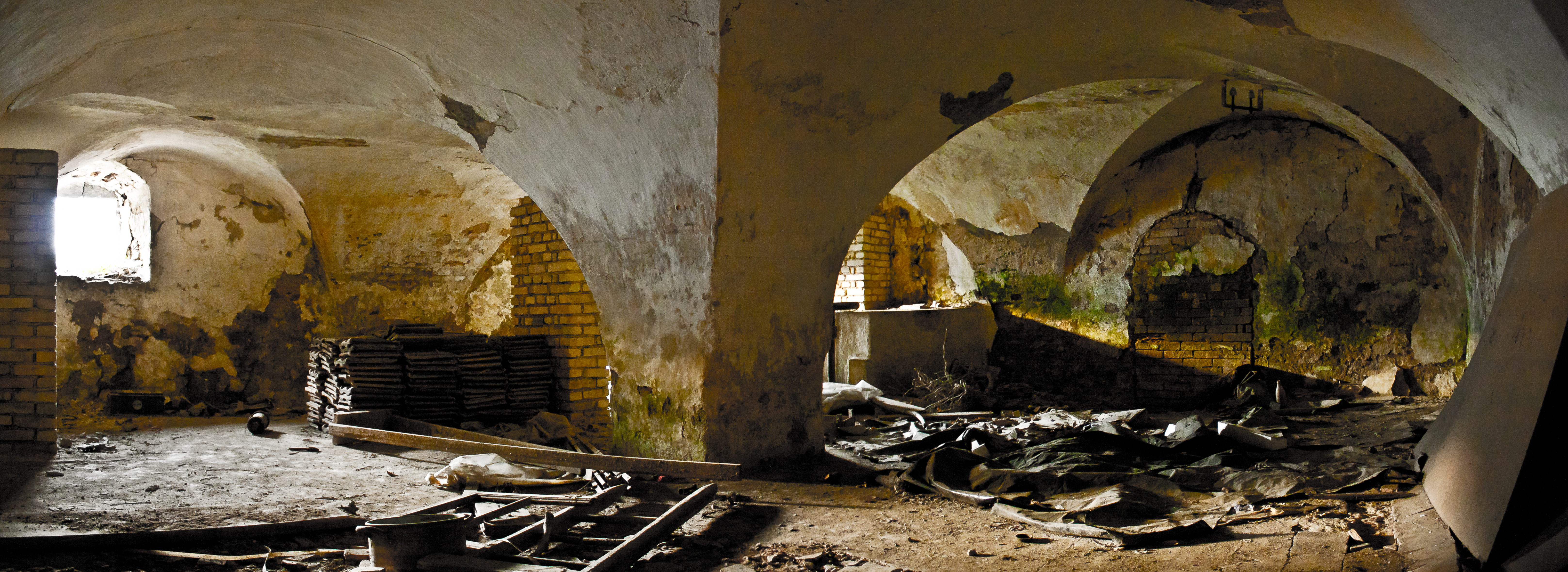 old cellar of the former brewery in Schrems